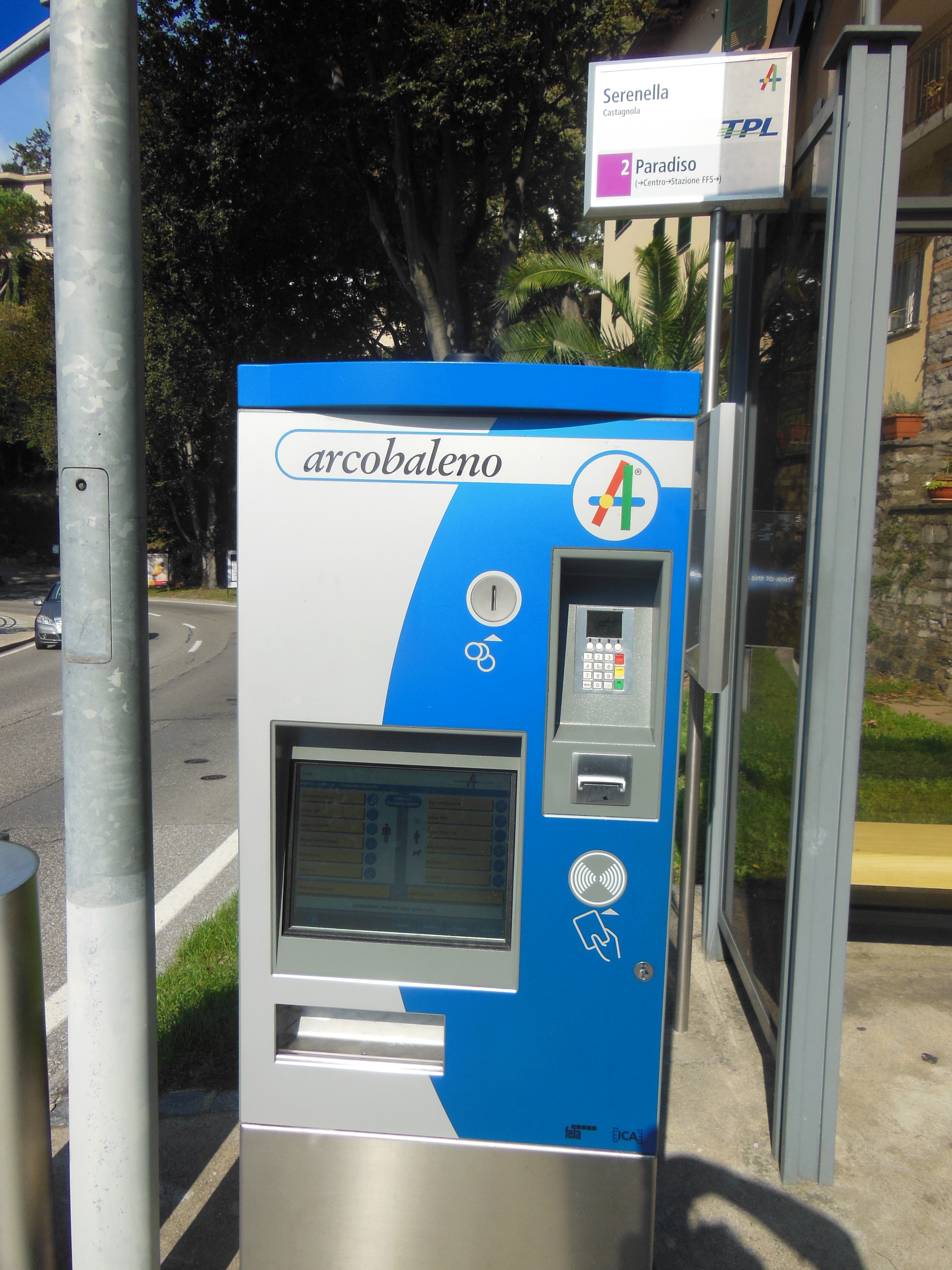 An Arcobaleno ticket machine at a TPL bus stop. For more information, see wikipedia articles Comunità tariffale Ticino e Moesano and Trasporti Pubblici Luganesi.